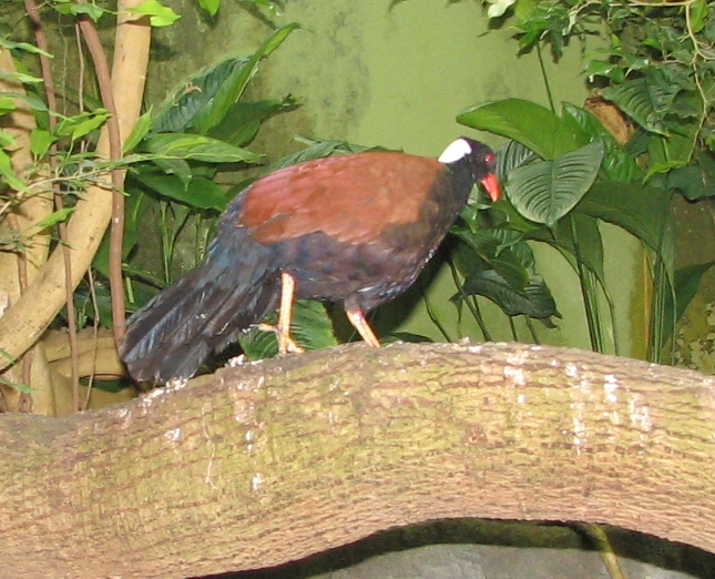 White-naped Pheasant Pigeon